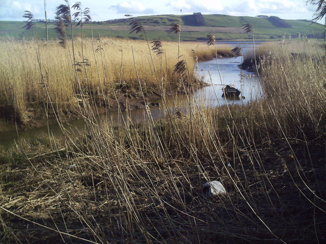 Reeds, Reeds, Reeds. Nothing is more characteristic of the North bank of the river Tay than reeds, here at Port Allen they can be savoured in all their glorious abundance.